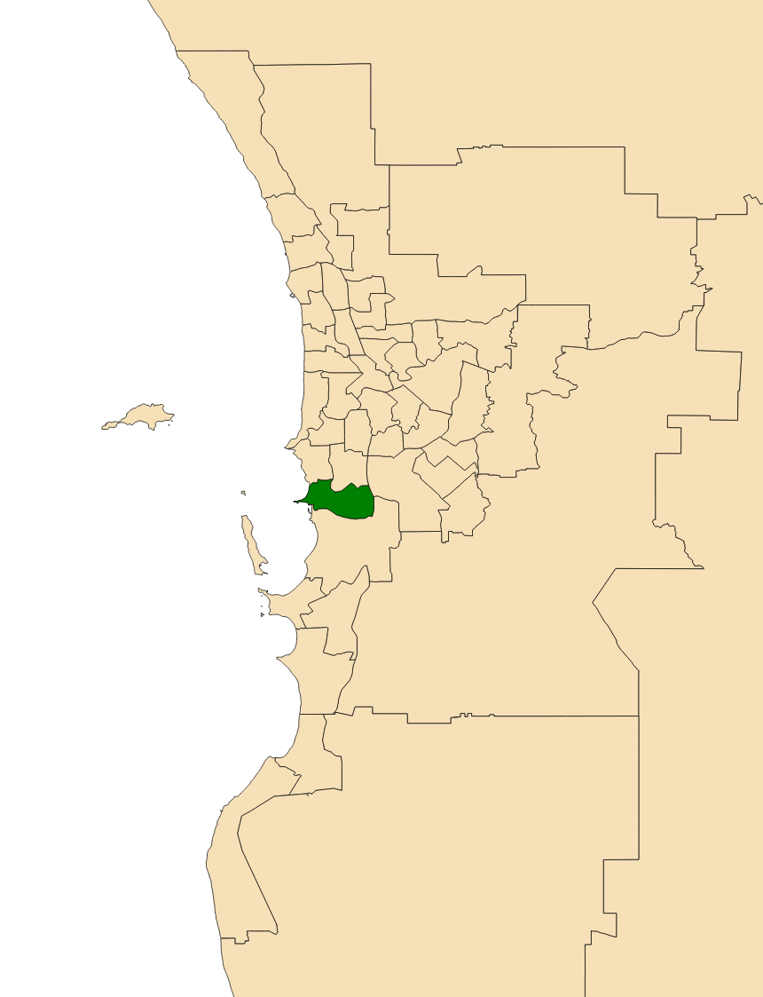 Location of the electoral district of Cockburn in the Perth metropolitan area, Western Australia as of the 2017 WA state election.